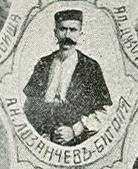 Portrait of IMARO Bitolya leader Anastas Lozanchev